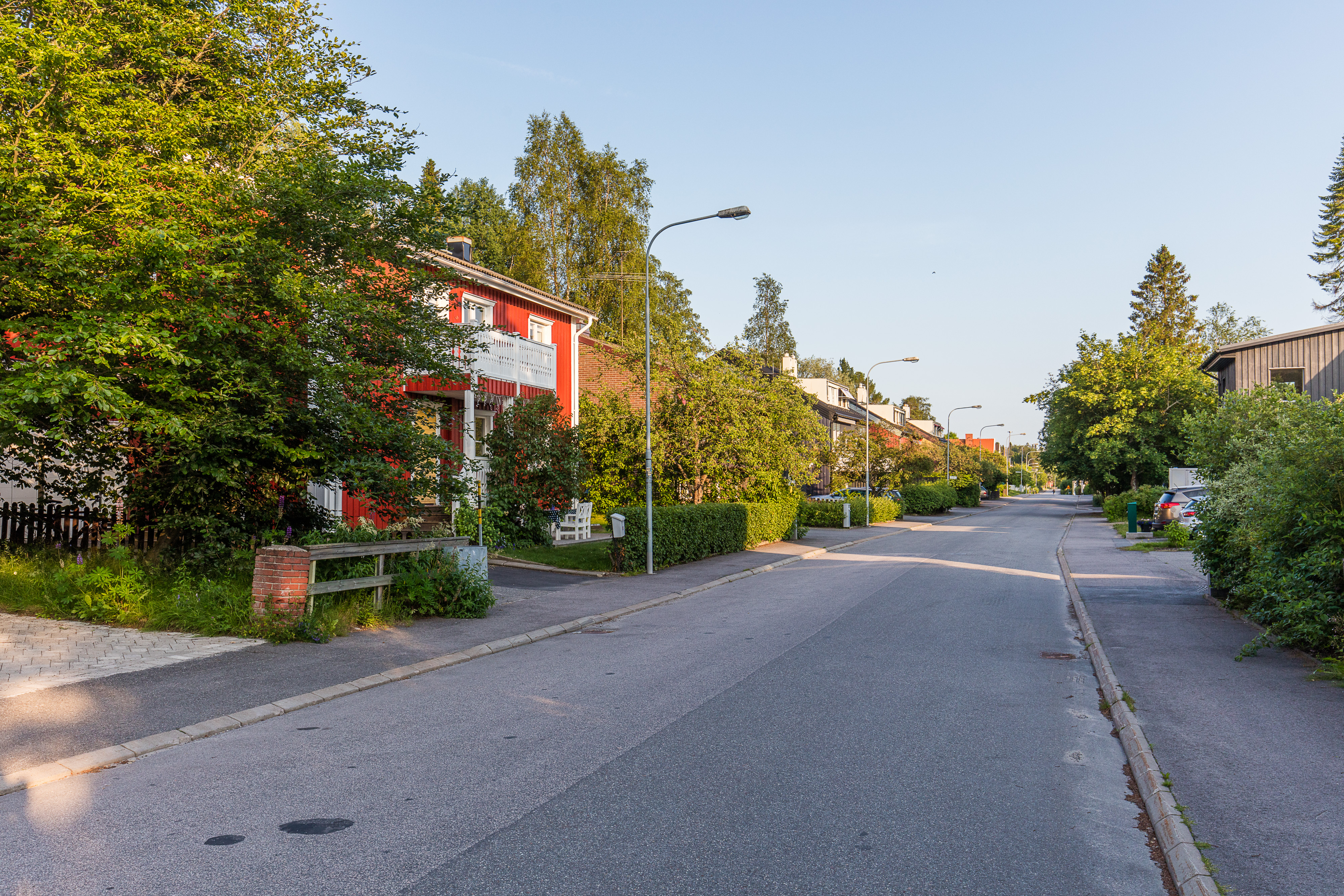 Sofiehem is a district of Umeå.